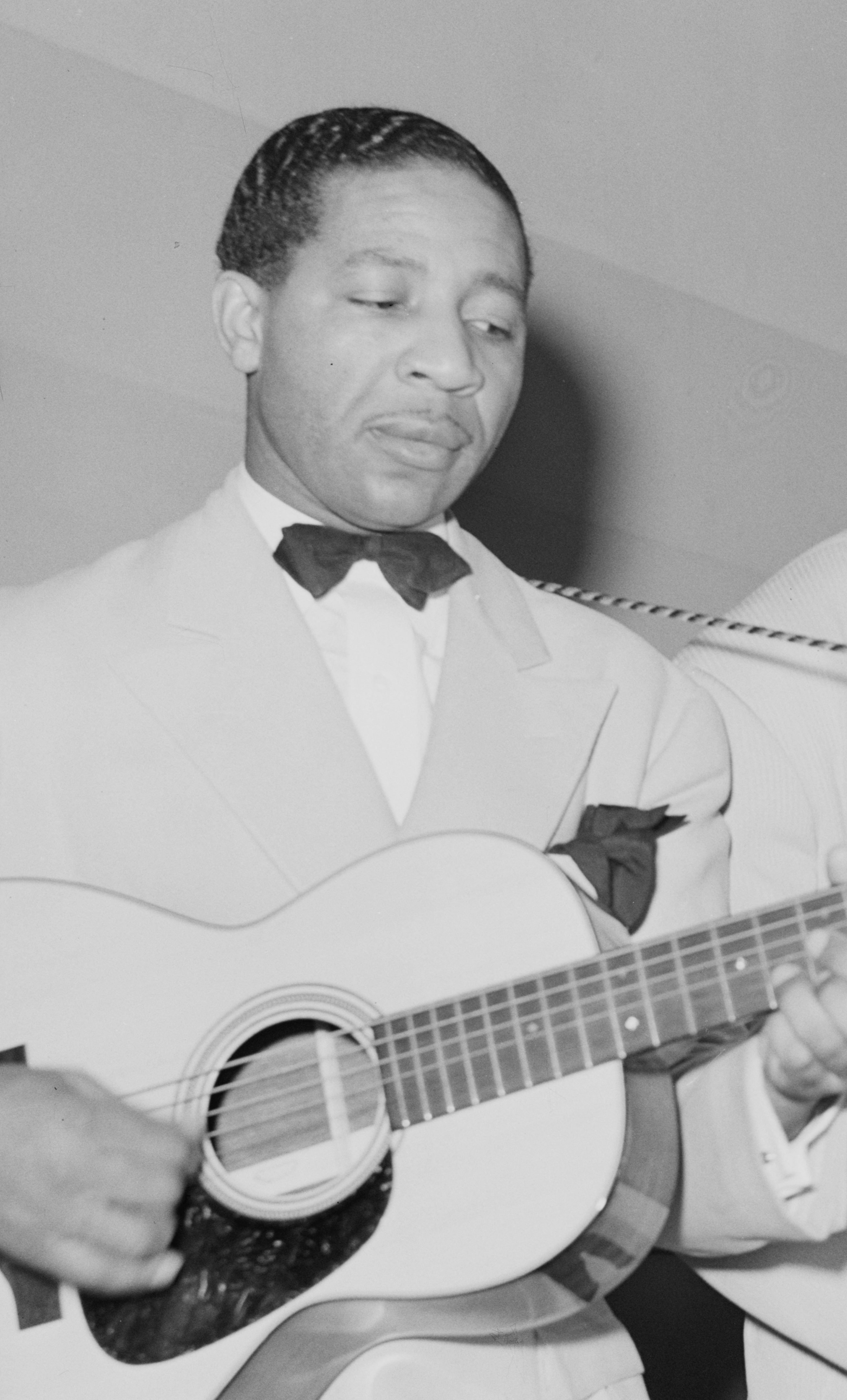 Lonnie Johnson playing in Chicago, 1941. Original caption: "Entertainers at Negro tavern. Chicago, Illinois".